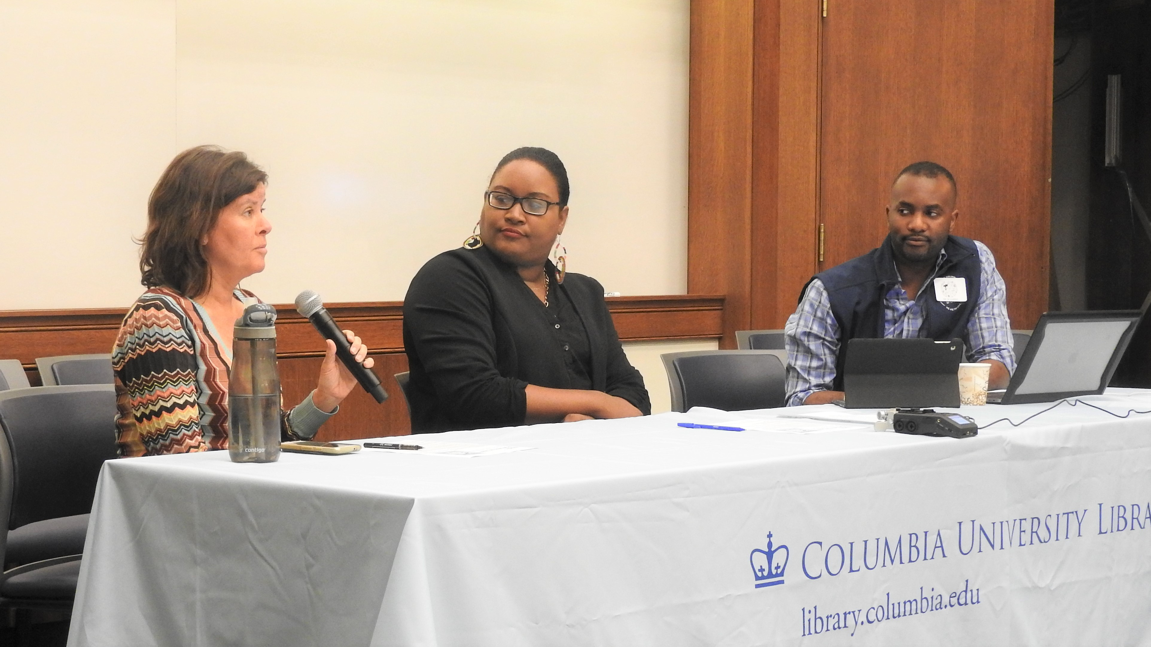 Looking east at discussants